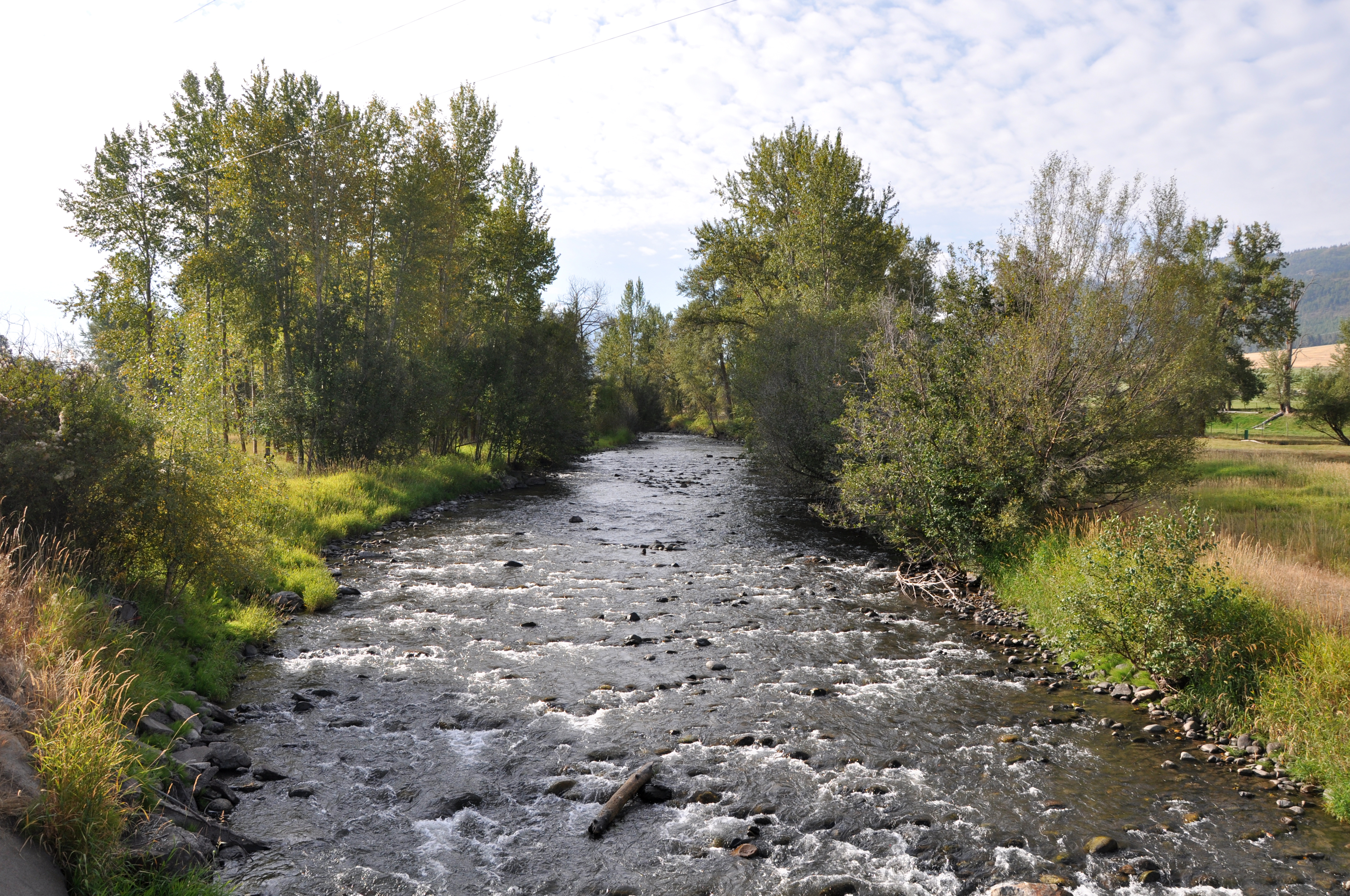 Lostine River at Lostine, Oregon. Photo taken from bridge carrying Oregon Route 82.